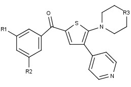 Trisubstituted thiophenes as PR antagonists with low potency